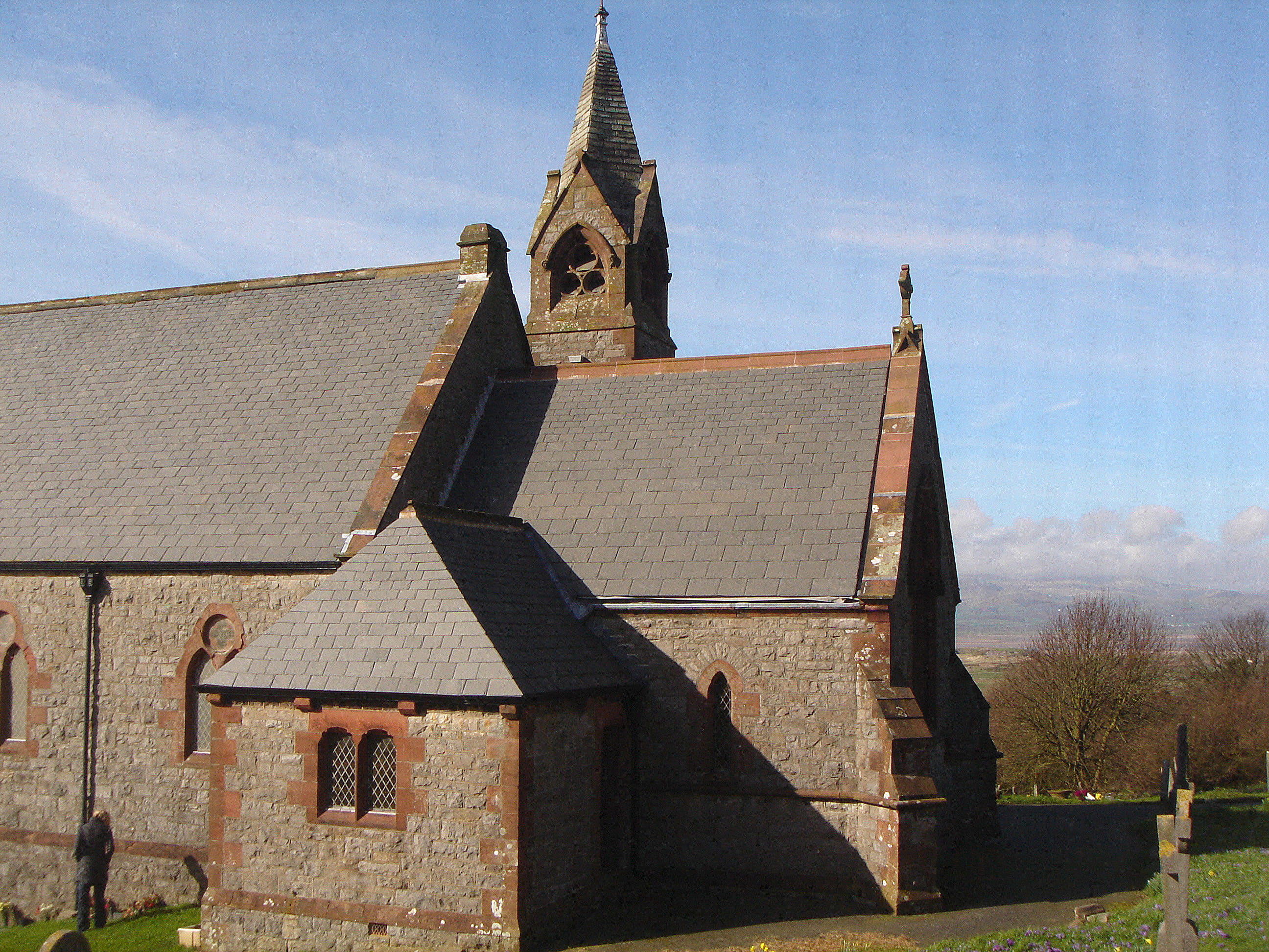 Improved version of Image:Irelethstpeters.jpg